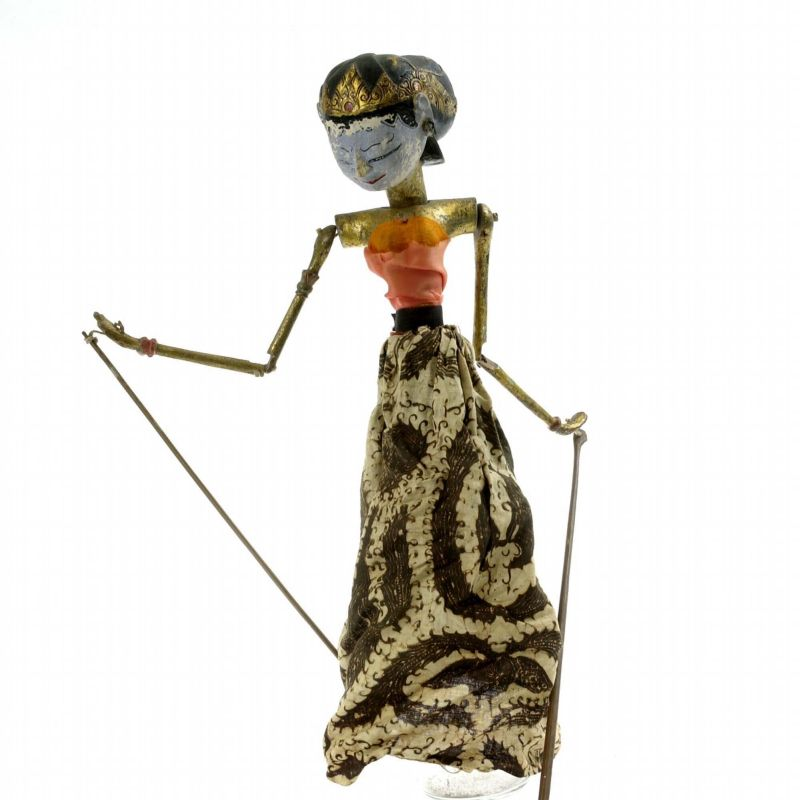 Wooden shadow puppet representing Dewi Preyangan